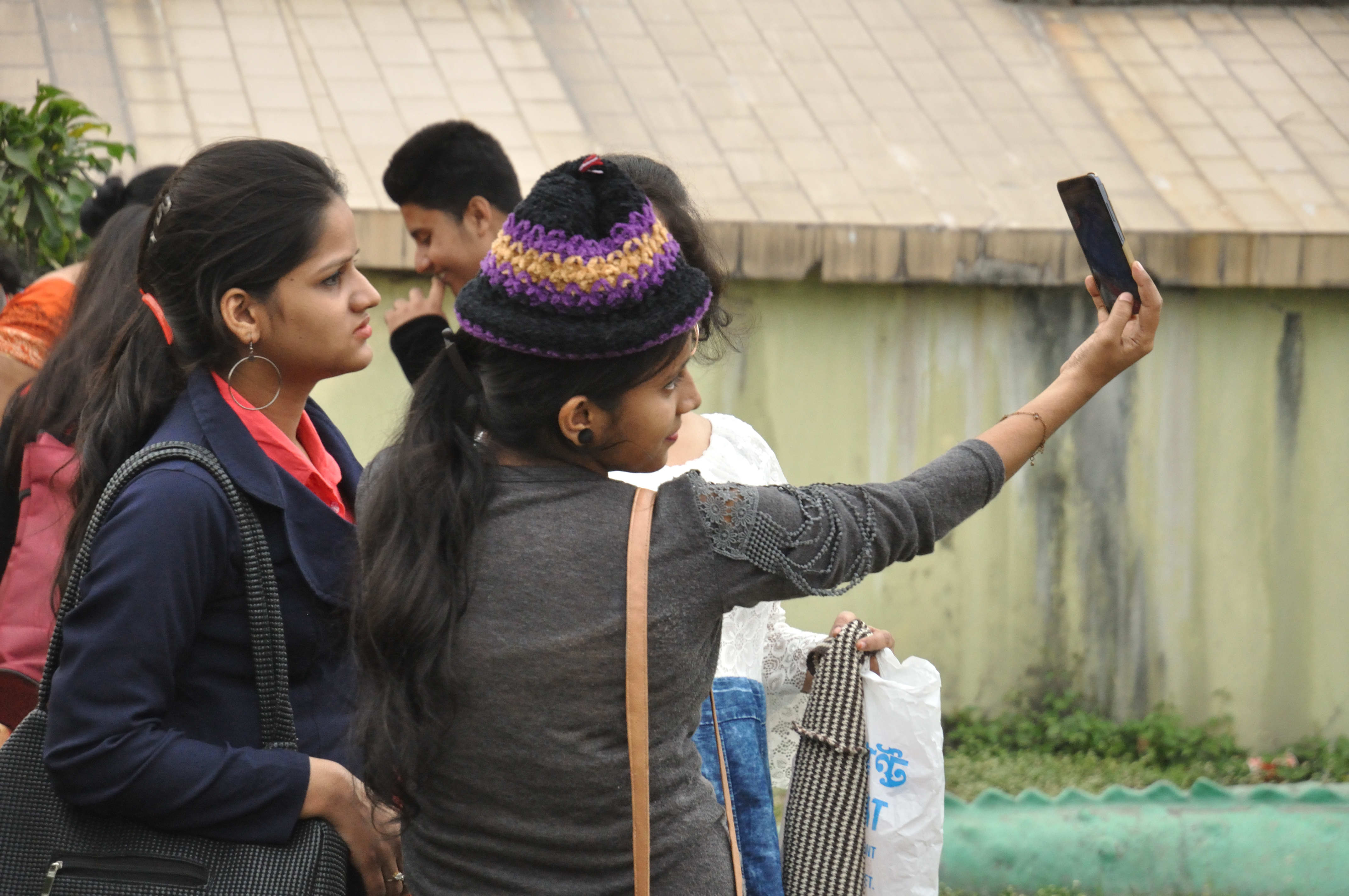 This photograph was taken during the 2018 New Year's Day at the Science City, Kolkata.